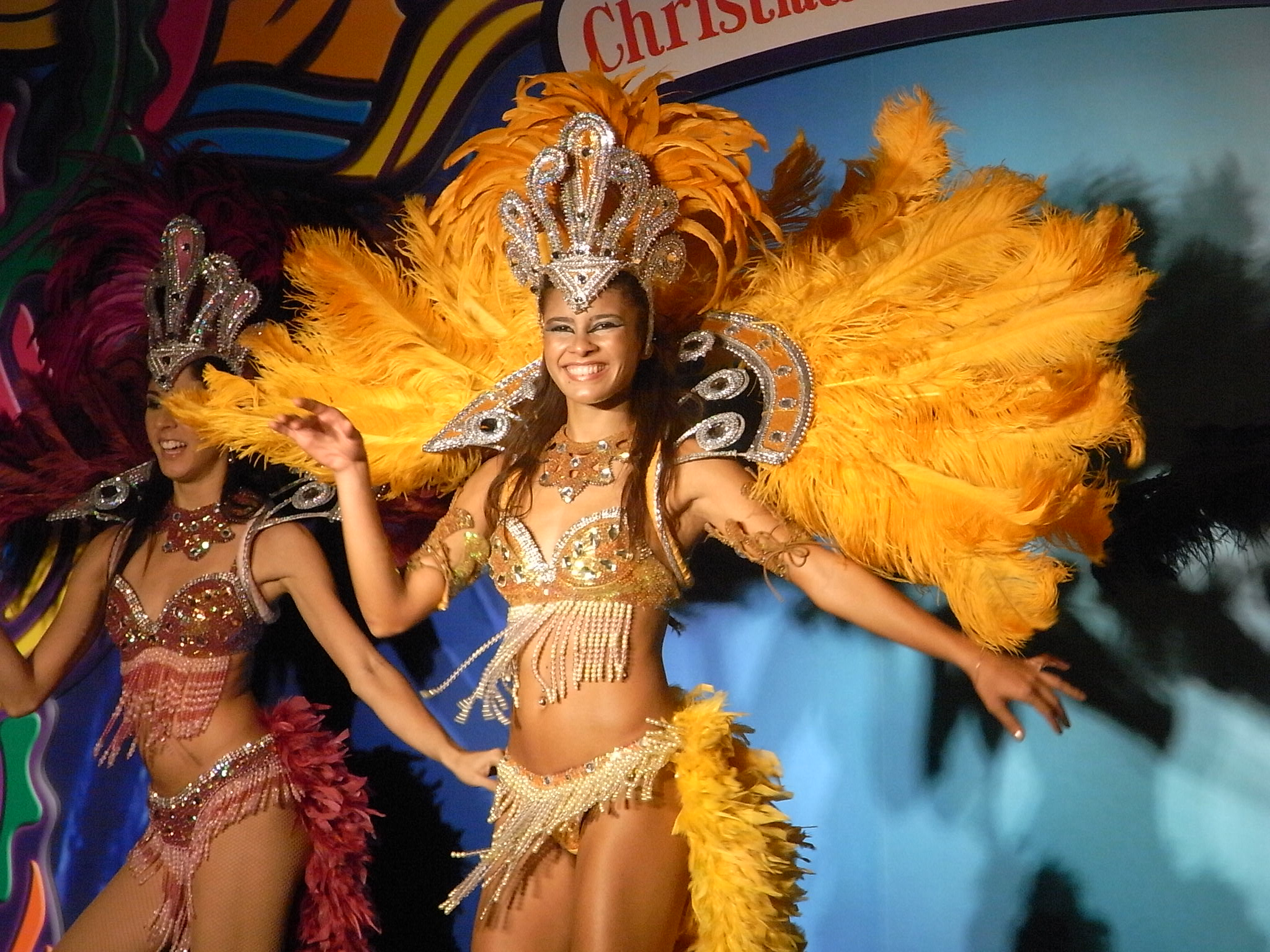 尖沙咀柏麗購物大道巴西森巴舞, Hong Kong pre-Chrismas event in November, 2010 as one of public relation activities.